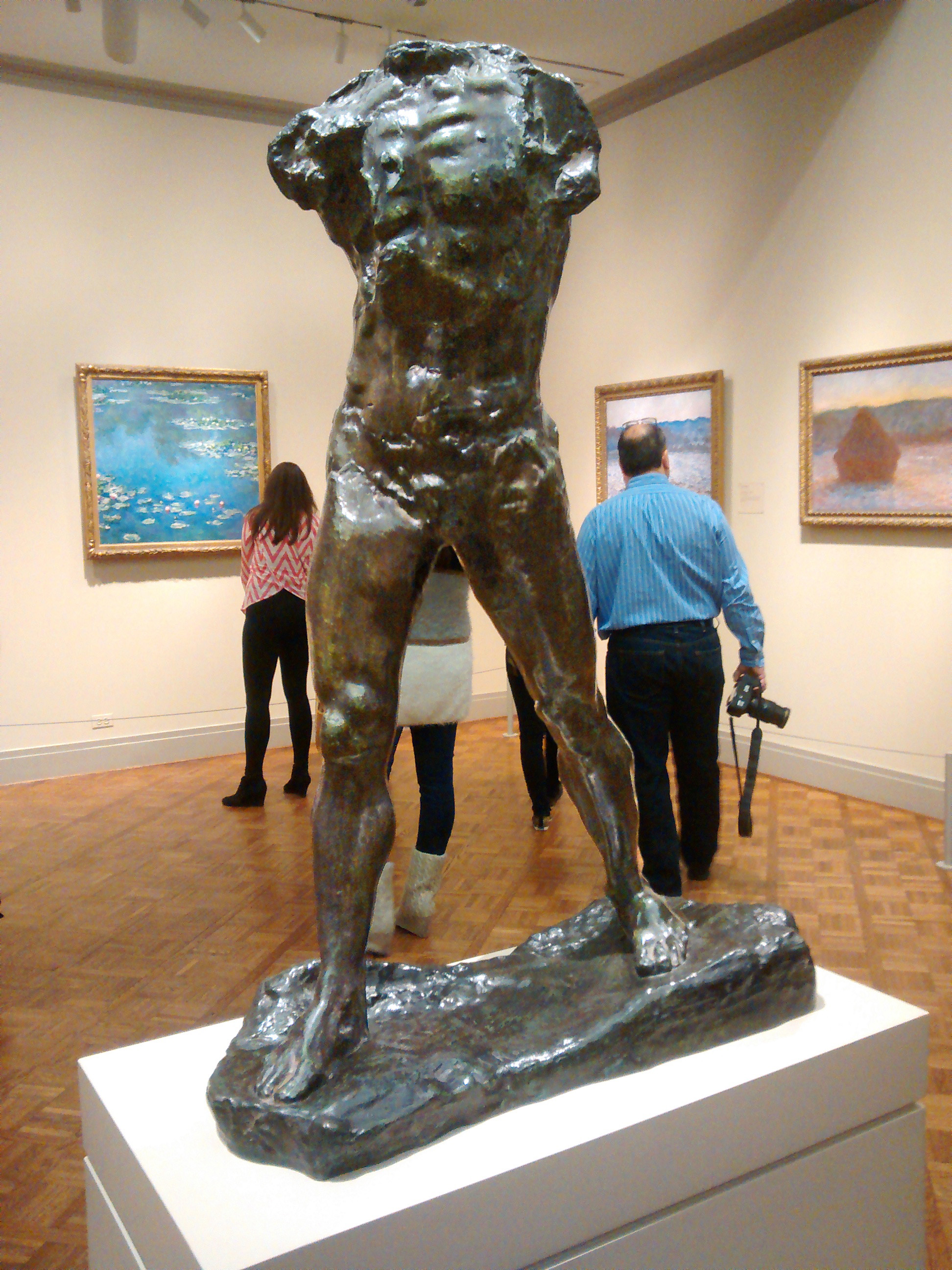 Front view of The Walking Man at the Art Institute of Chicago.